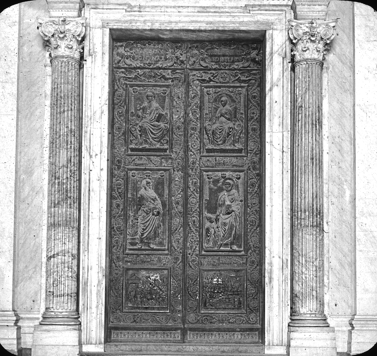 S. Peter, Rome, Italy. Rome - St. Peter's, bronze door of vestibule. Brooklyn Museum Archives, Goodyear Archival Collection (S03_06_01_023 image 2976).